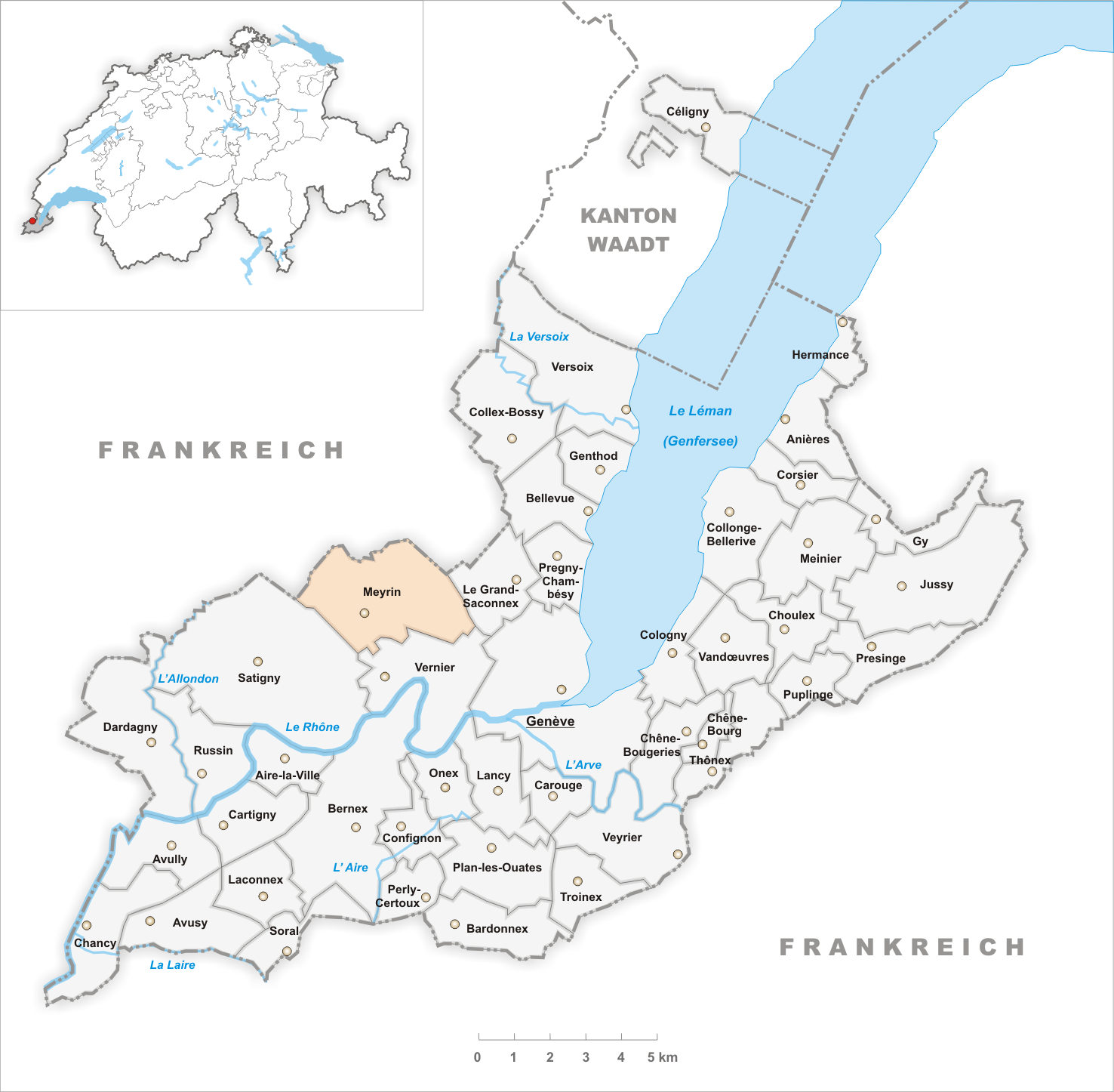 Municipality Meyrin